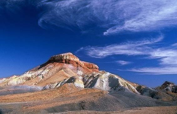 Author- David Olsen